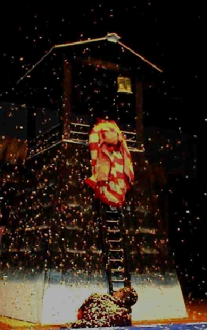 Scene from Date Musume Koi no Higanoko (伊達娘恋緋鹿子) depicting Yaoya Oshichi climbing the tower